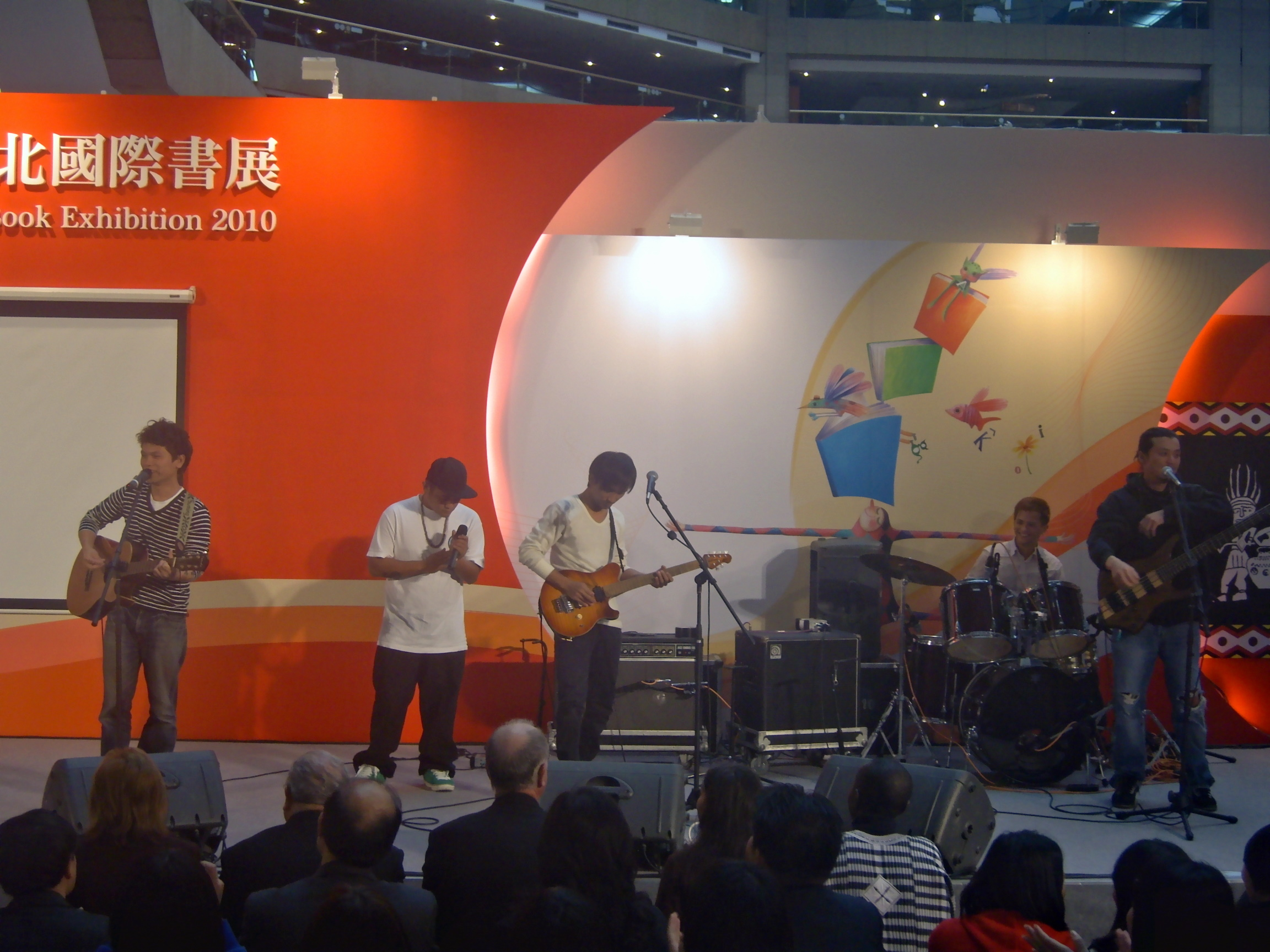 2010 Taipei International Book Exhibition: Government Information Office - Taiwan Documentary Film Award Ceremony, Totem Band Live Show.